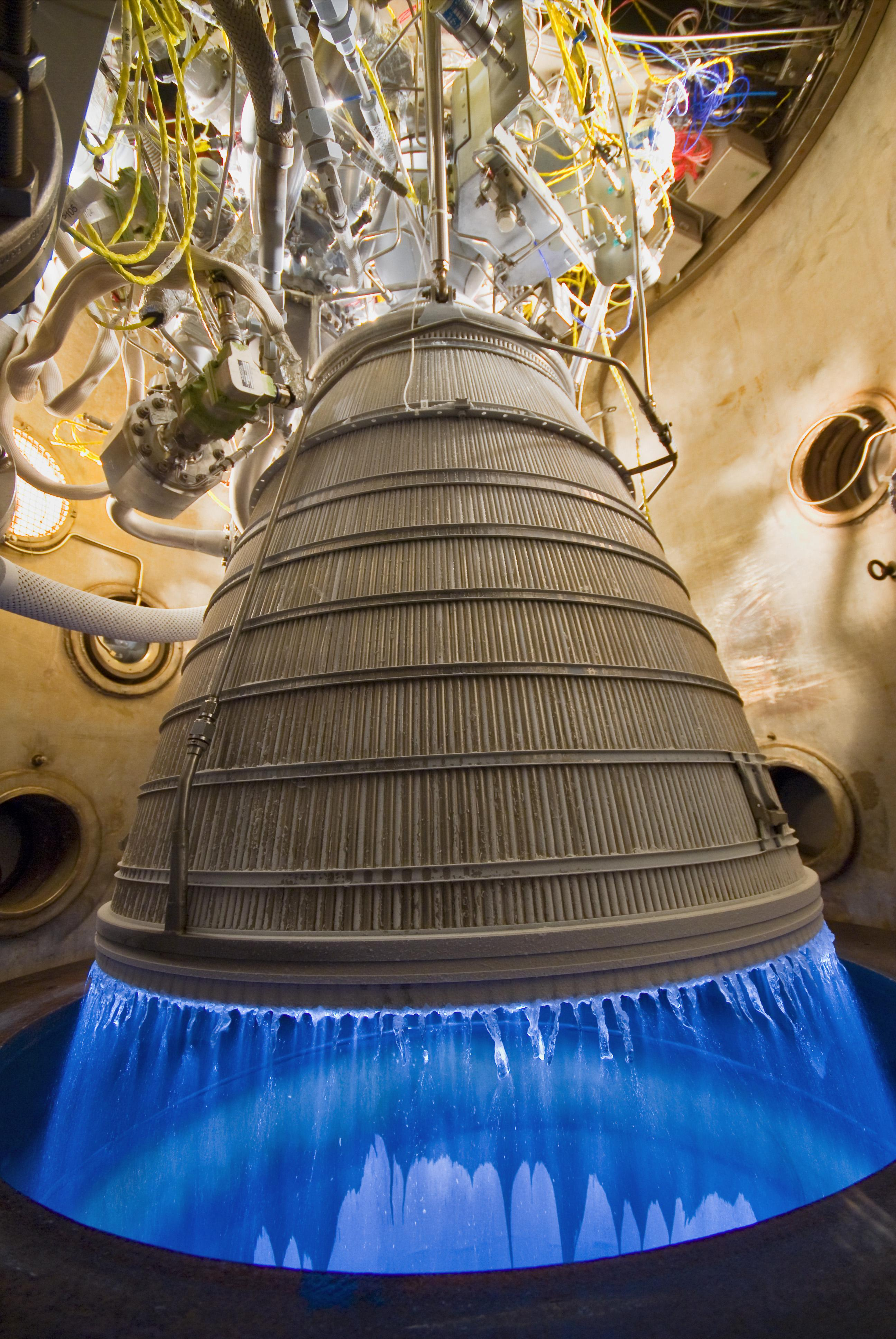 The Common Extensible Cryogenic Engine, also known as CECE, completes the fourth and final series of hot-fire tests on a 15,000-pound thrust class cryogenic technology demonstrator rocket engine, increasing the throttling capability by 35 percent over previous tests. This test series demonstrated this engine could go from a thrust range of 104 percent power down to 5.9 percent. This equates to an unprecedented 17.6:1 deep-throttling capability, which means this cryogenic engine can quickly throttle up and down. This rocket engine is fuelled by a mixture of -182.8 Celsius liquid oxygen and -252.8 Celsius liquid hydrogen. The engine components are super-cooled to similar low temperatures. As CECE burns its frigid fuels, gas composed of hot steam is produced and propelled out the nozzle creating thrust. The steam is cooled by the cold engine nozzle, condensing and eventually freezing at the nozzle exit to form icicles.